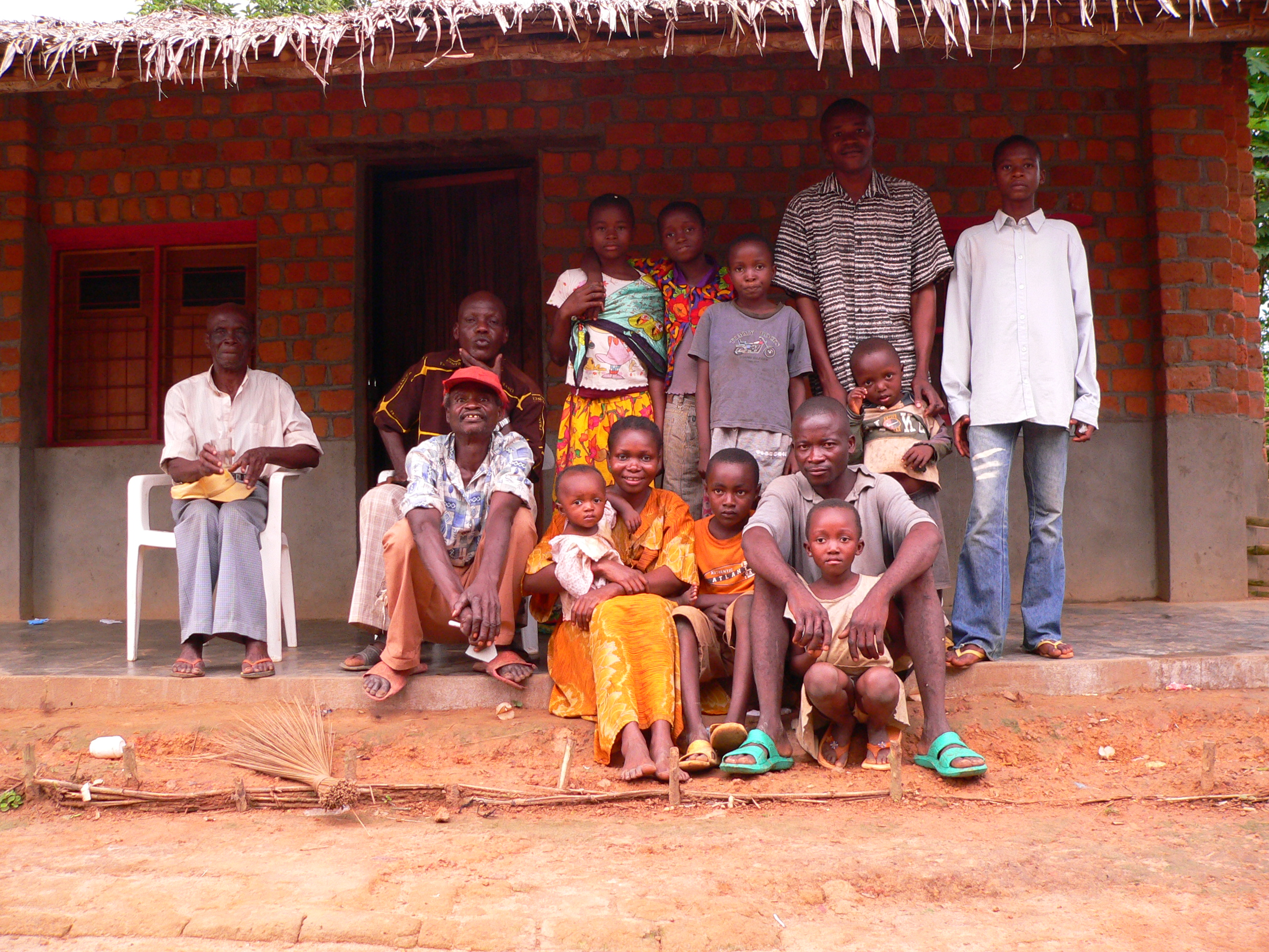 A family from Basankusu in front of a typical fired-brick, palm thatched house.